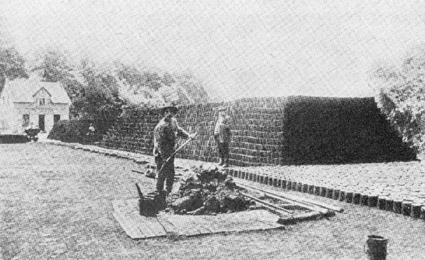 Production of "Klütten", traditional lignit briquettes from the Rhine area, Germany